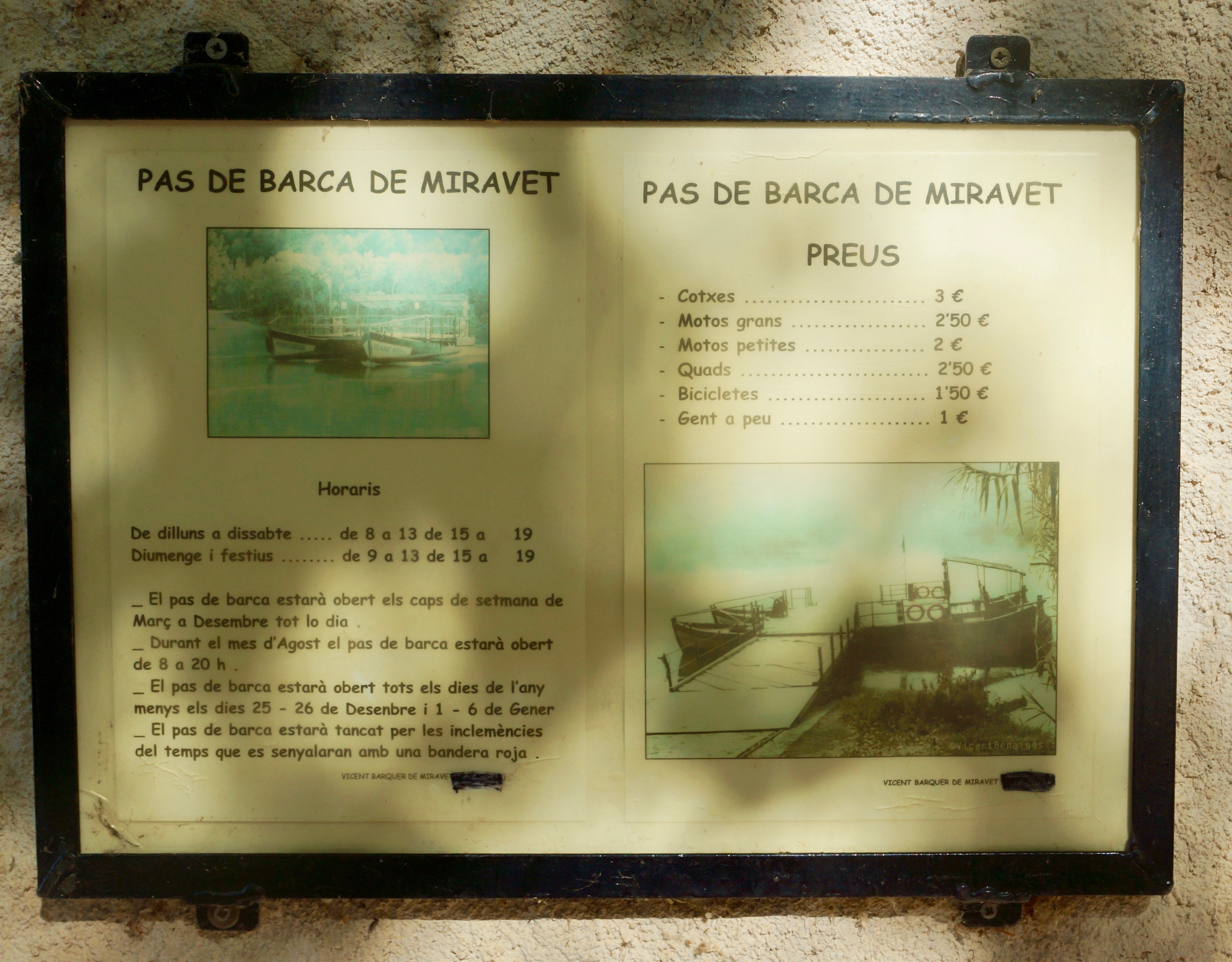 Miravet, Catalonia: Time table and prices (2018) from the Miravet Ferry on the river Ebre